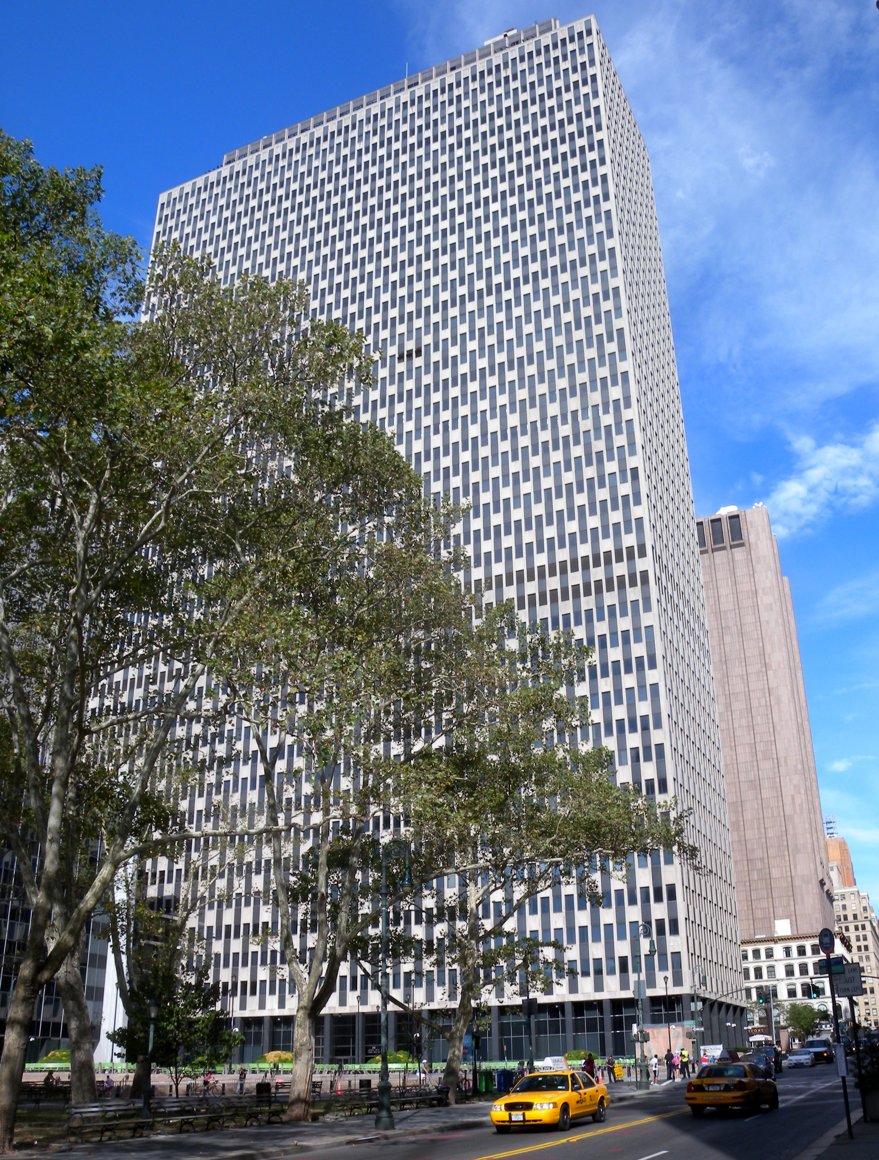 Looking west across Worth and Centre at Javits Building on a sunny morning.